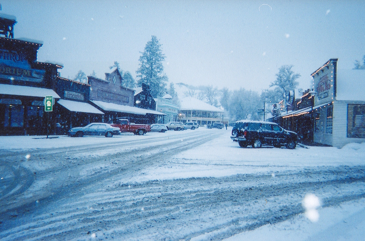 The city of Winthrop, Washington on a snowy day.